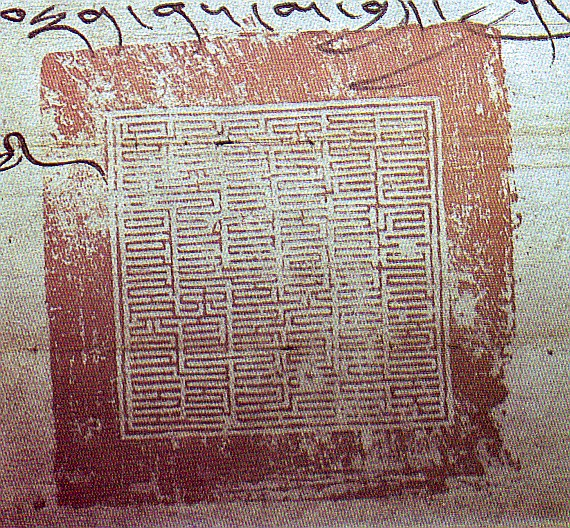 Seal of the Tibetan Ruler Lhabzang Khan